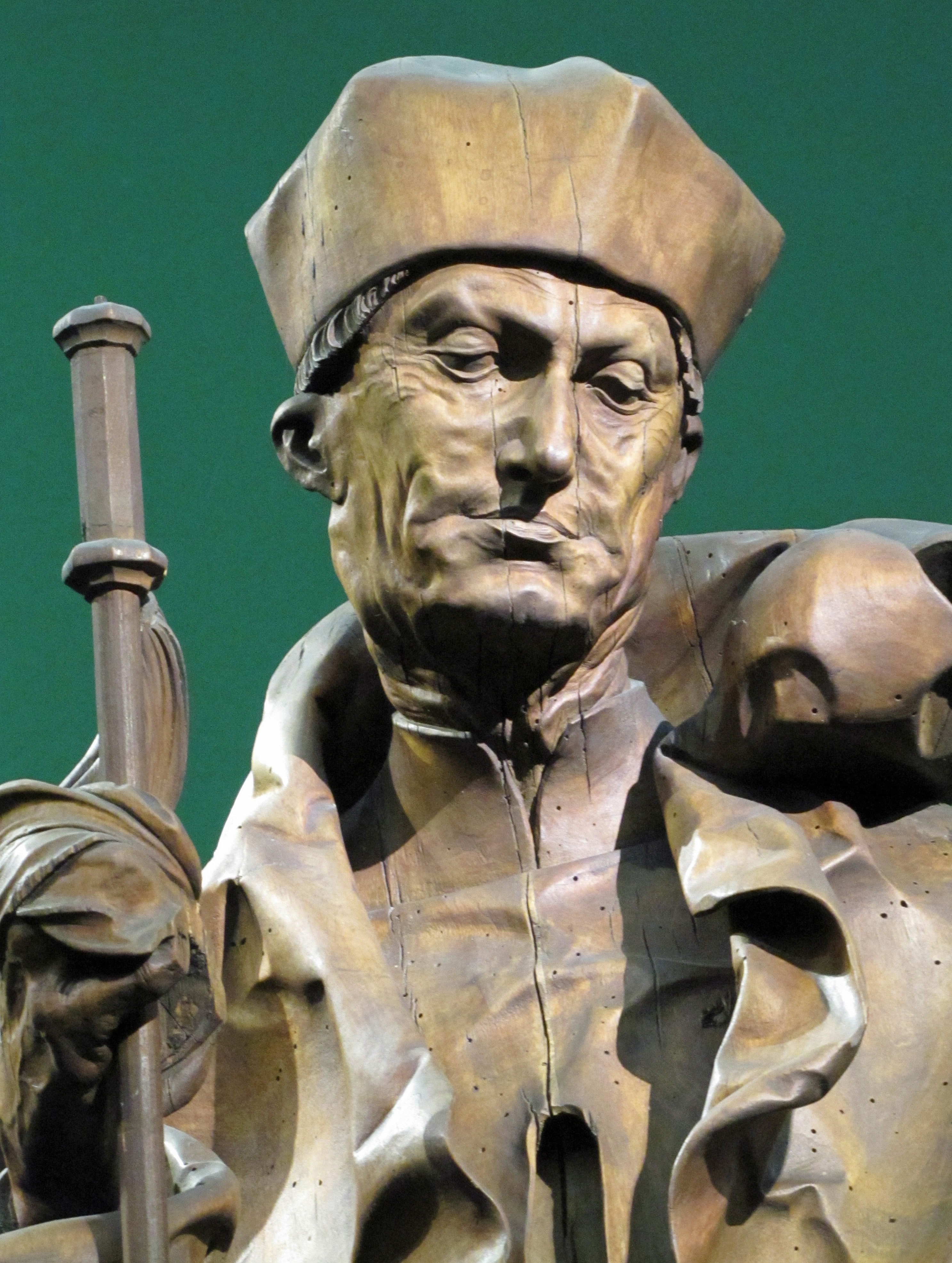 Detail of Abbot Saint, between 1520 and 1530, possible Bavaria, unknown artist, limewood, at "Liebieghaus" in Frankfurt am Main, Germany.